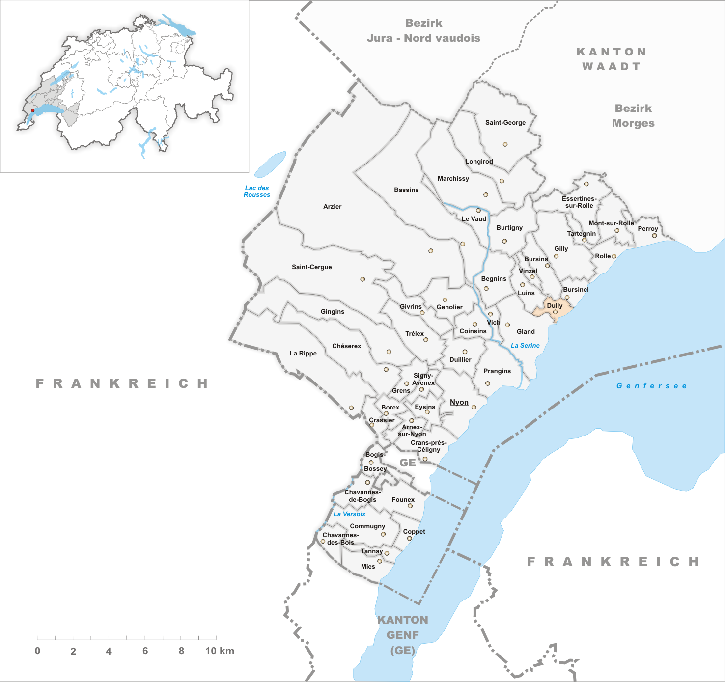 Municipality Dully